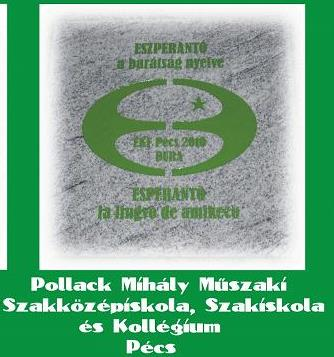 Pollack Mihály Technical School Esperanto Plaque, Pécs, Hungary